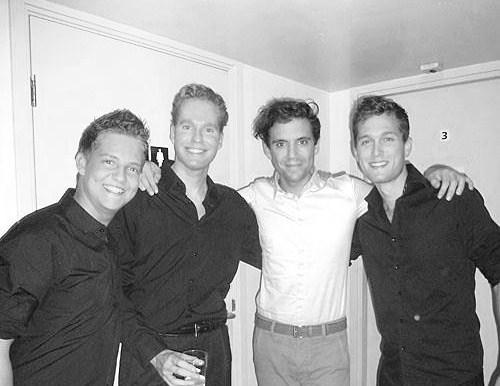 Mika at his "Origin of Love" tour with his backing vocalists Sander Jan Klerk, Wesley Faaij and Jelmer Swaerts.